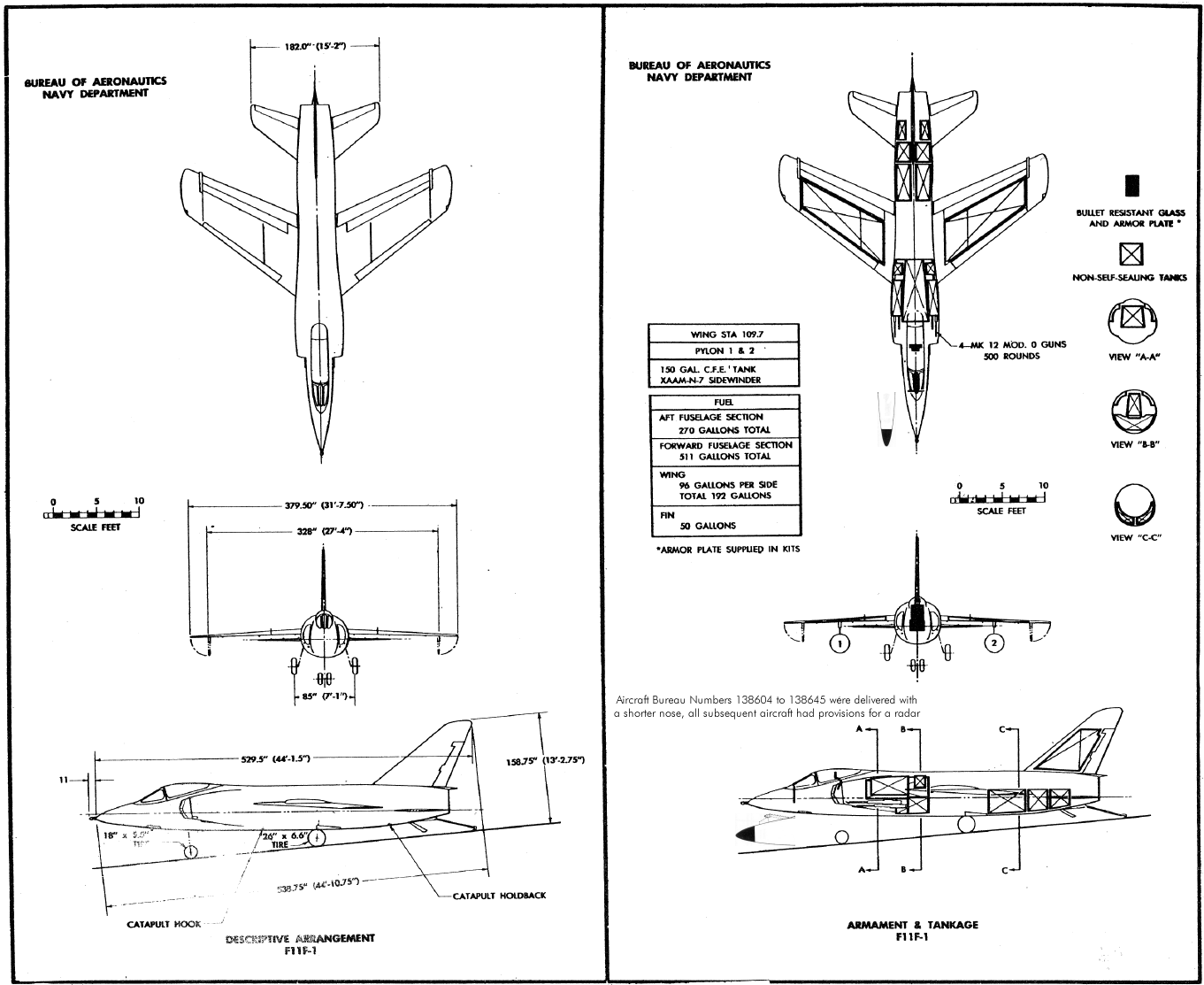 Official U.S. Navy Standard Aircraft Characteristics (SAC) for the Grumman F11F-1 (F-11A) Tiger fighter.